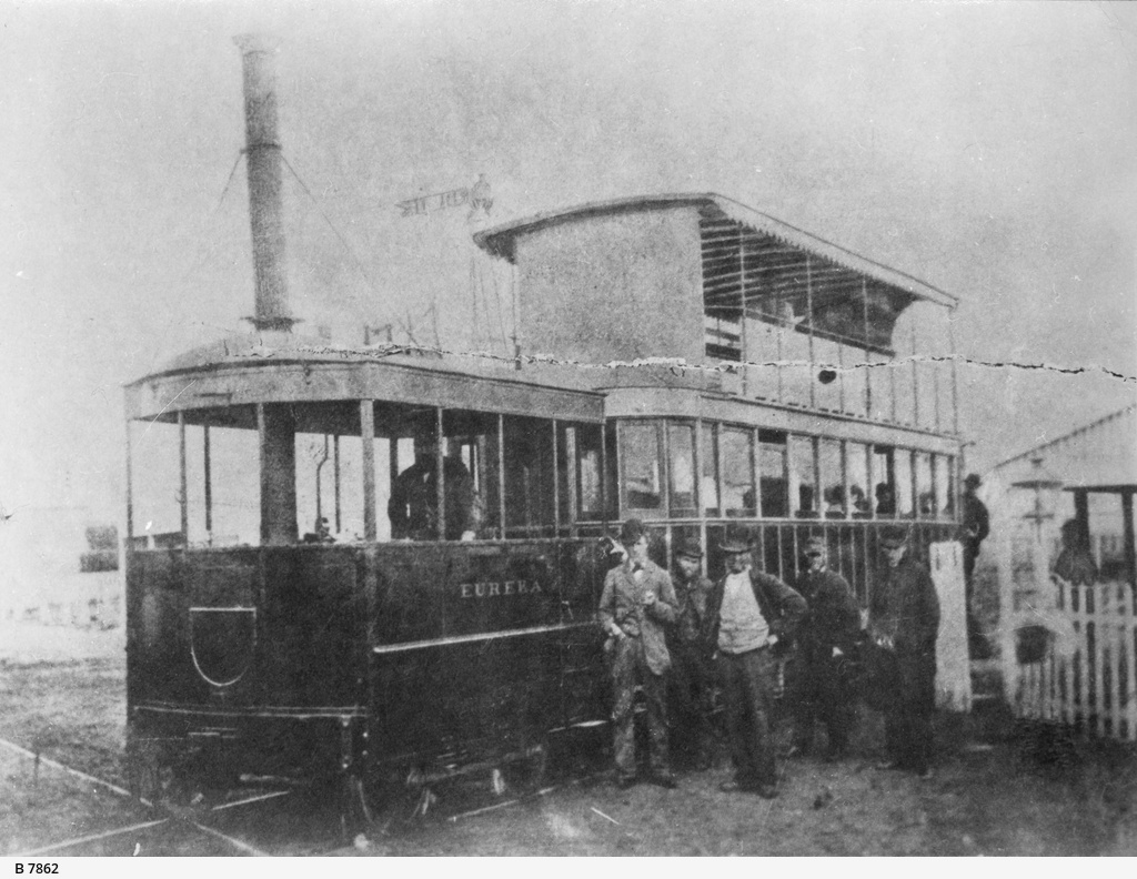 Eureka Steam Motor purchased second-hand from Port Adelaide and Queenstown Tramway Company in April 1883. Used on South Terrace Line between South Terrace and Goodwood. Built by Merryweather, London. Engine 0-4-0 type inside cylinders 5 inch diameter with Stephenson's motion. Held about 80 passengers. The vehicle has 'Eureka' painted on the side of the front single deck engine car while the second part has two decks